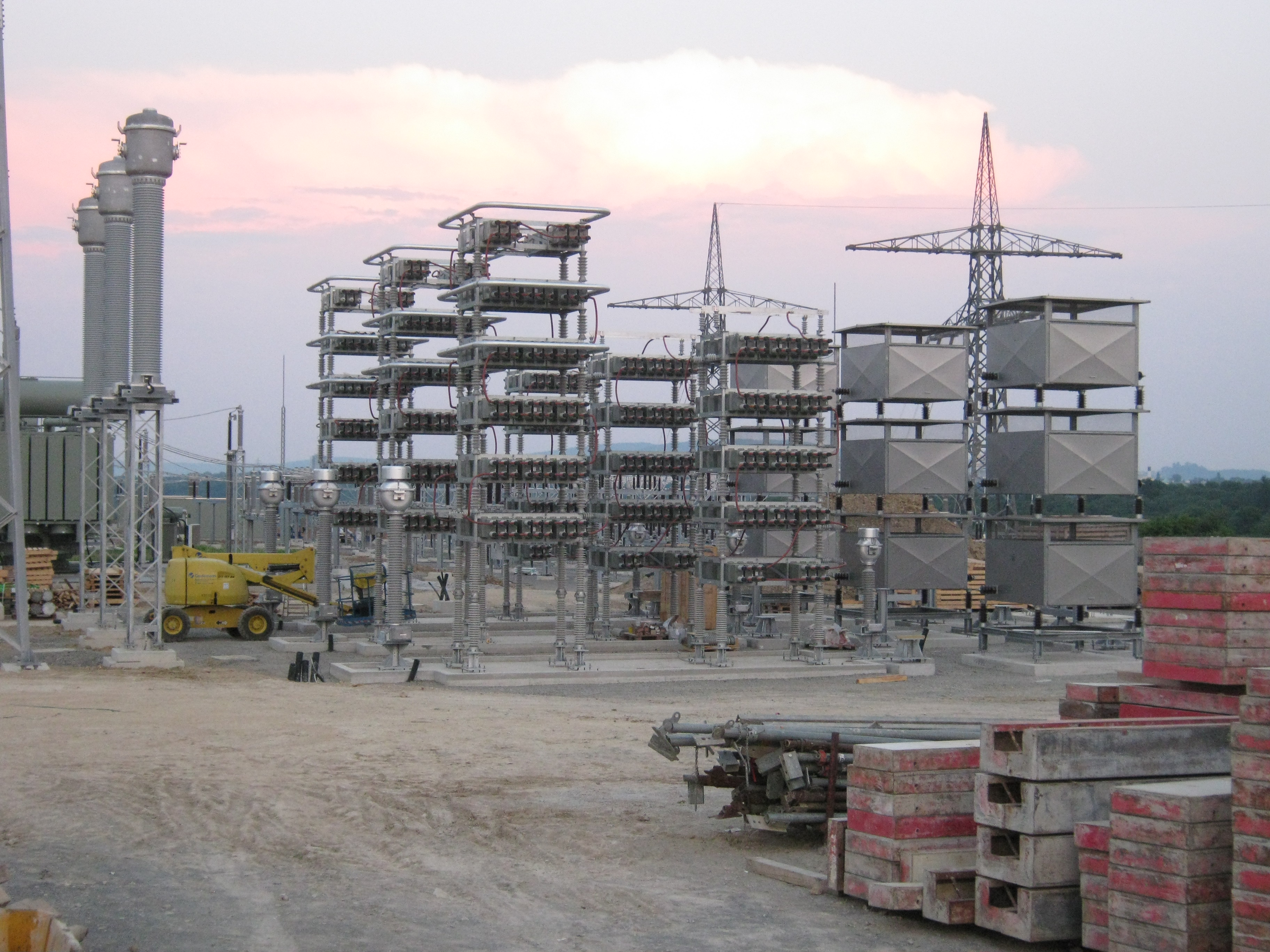 Capacitator bank in 380 kV/110 kV-substation under construction in Kornwestheim